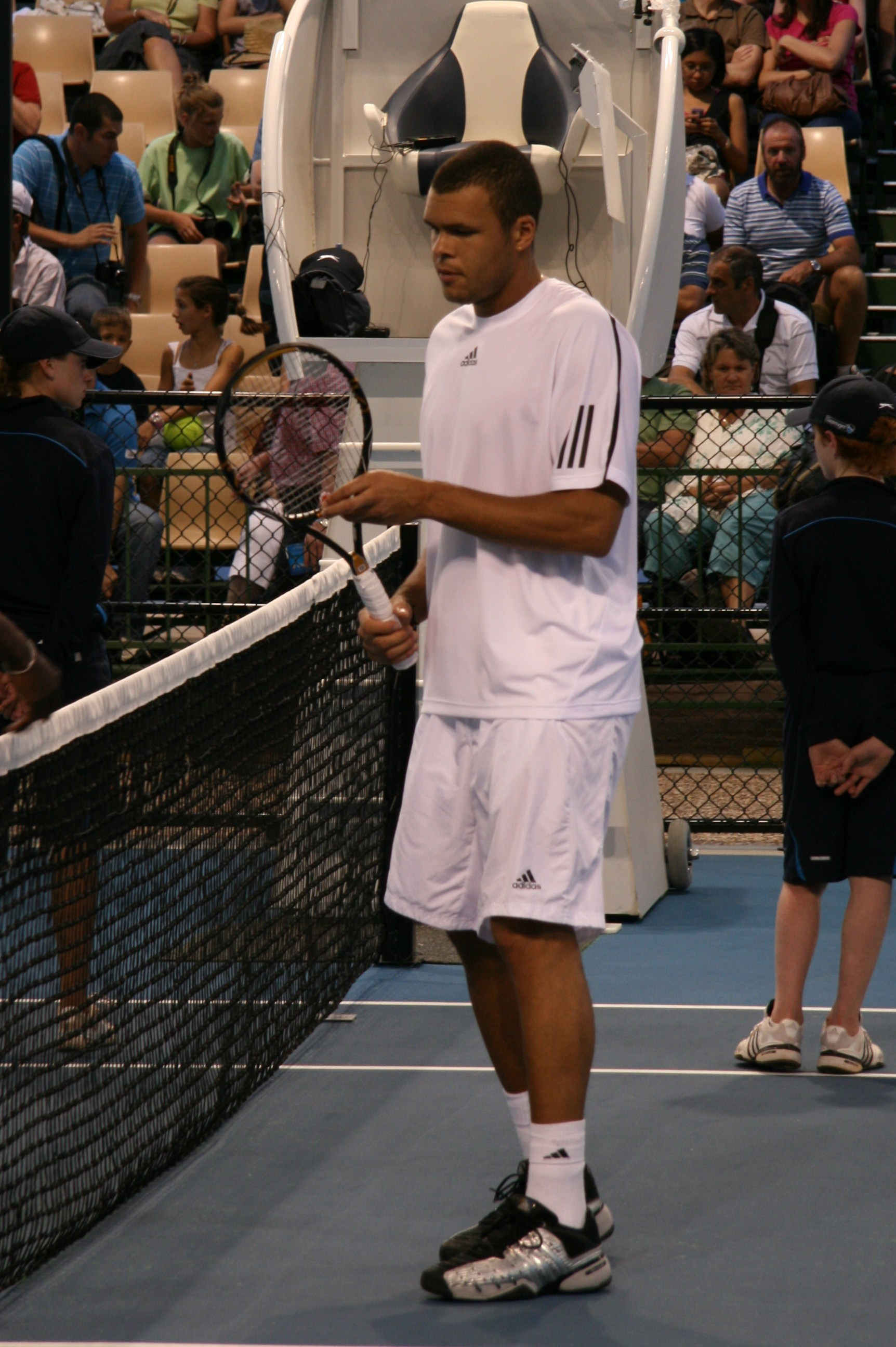 Jo-Wilfried Tsonga at the 2009 Brisbane International